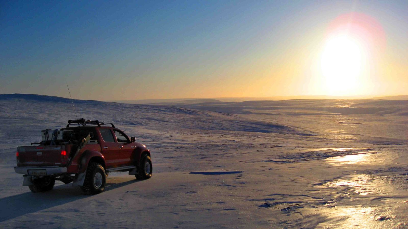 Arctic Trucks at the expedition to the maginetic North Pole with car magazine Top Gear.